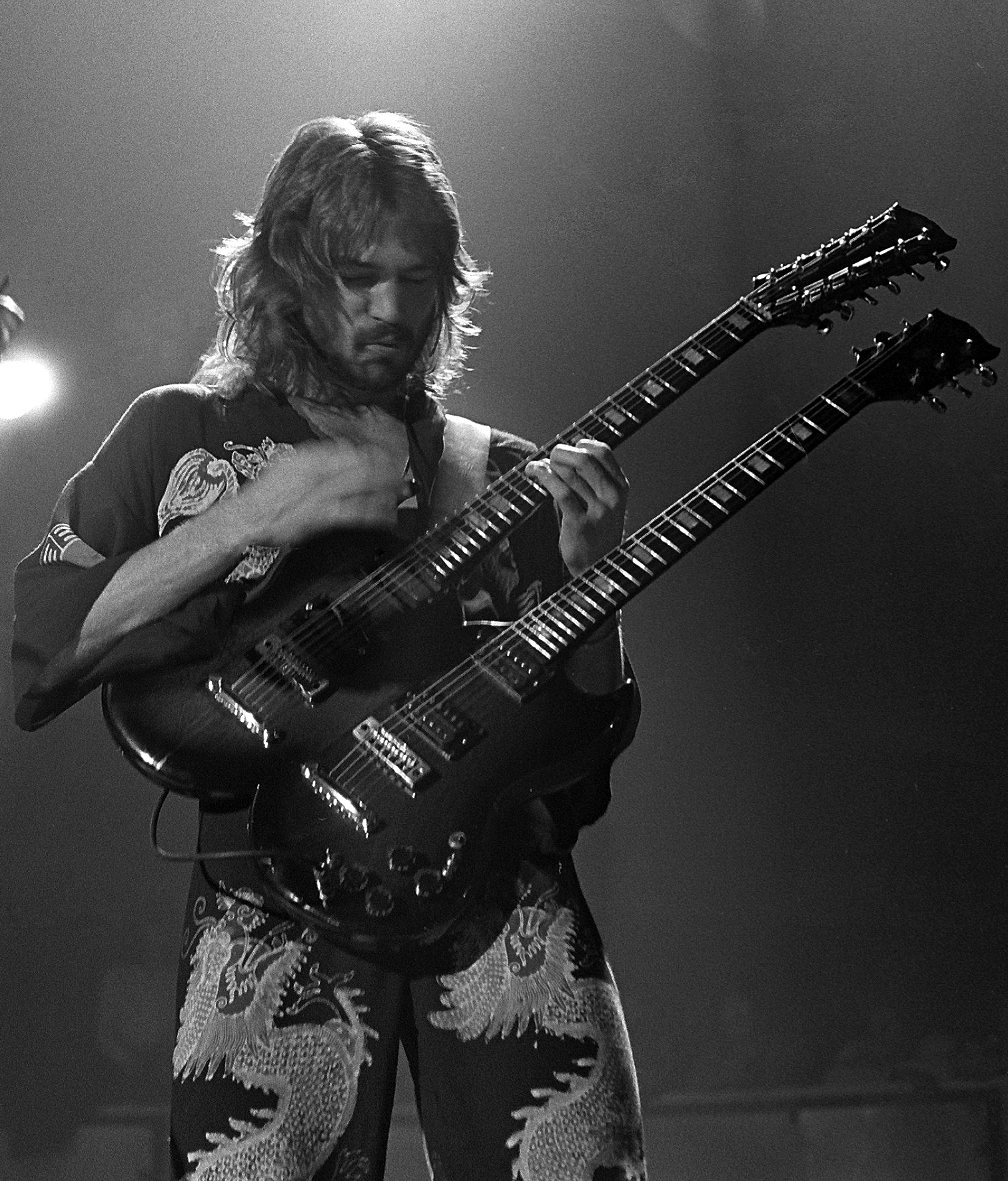 Roger Fisher of the American rock band Heart Guitar Player (Dec. 1979). "a Gibson SG that was modified into a 6- and 12- doubleneck guitar by Ed Myronyk."